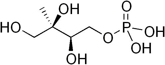 chemical structure of 2-C-methylerythritol 4-phosphate (MEP)